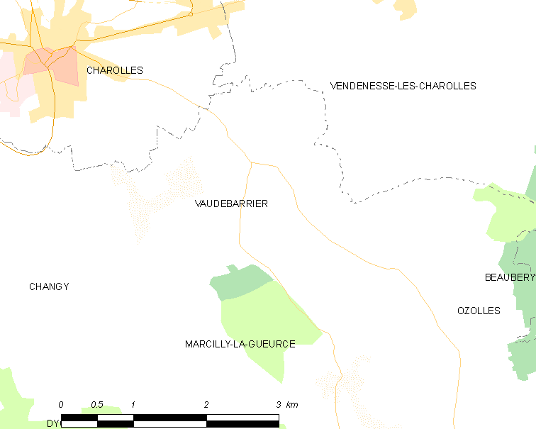 Map of French municipality